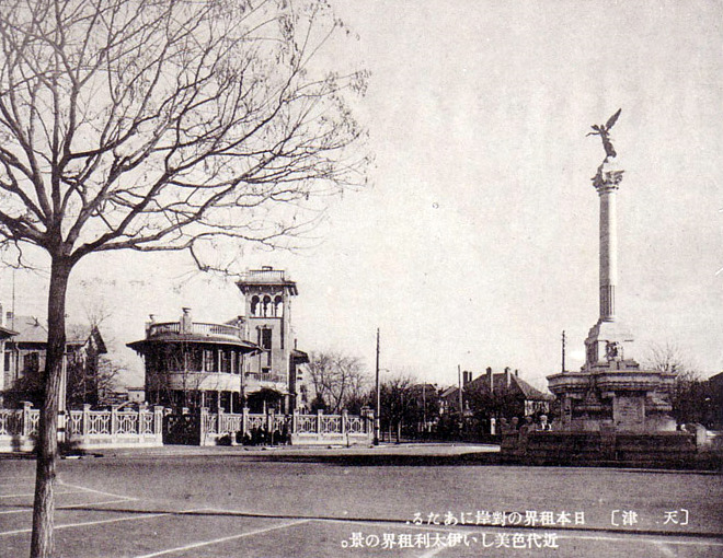 Marco Polo Square in the Italian concession (1901–1947) in Tianjin